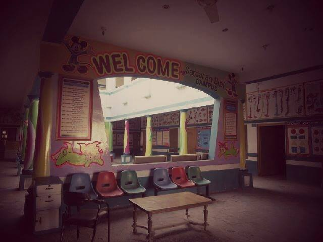 Beacon Light Public School is the school in Fateh Pur district Liyyah (Pakistan). It is the first English Medium school of Fateh Pur. It was built by Imtiaz. It is one of the top school of Dera Ghazi Khan board.